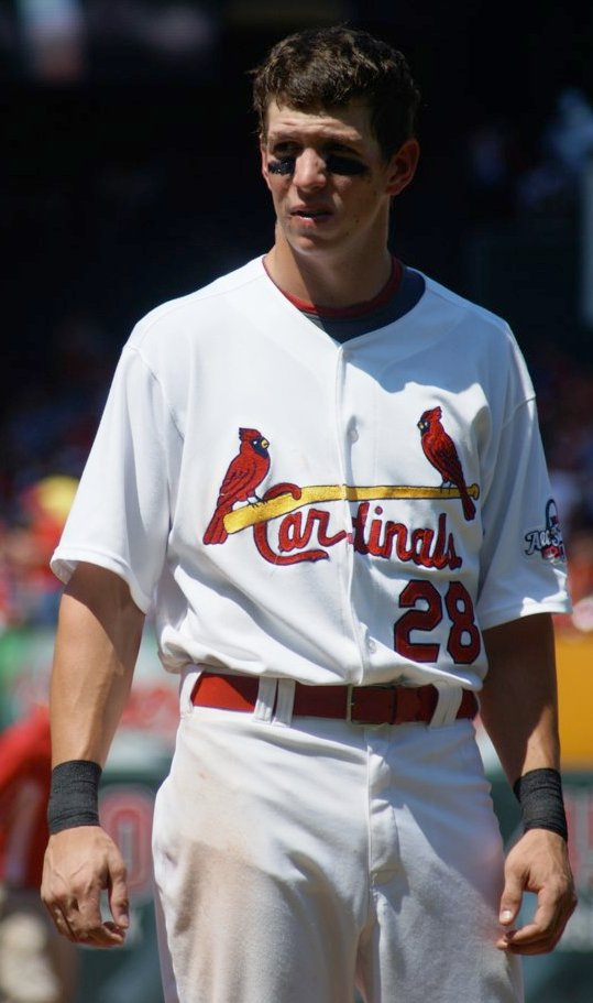 Colby Rasmus